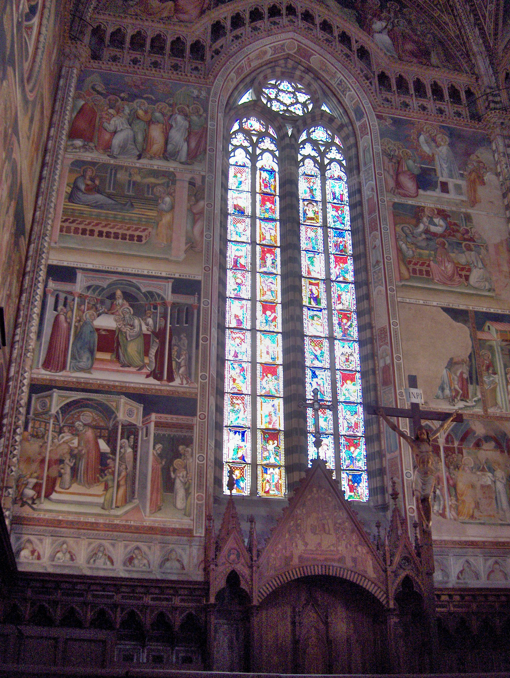 Apse: stained-glass quadrifore; frescoes with scenes from the life of Mary by Ugolino di Prete Ilario (1370); polychrome wooden crucifix by Maitani; Cathedral of Orvieto, Italy